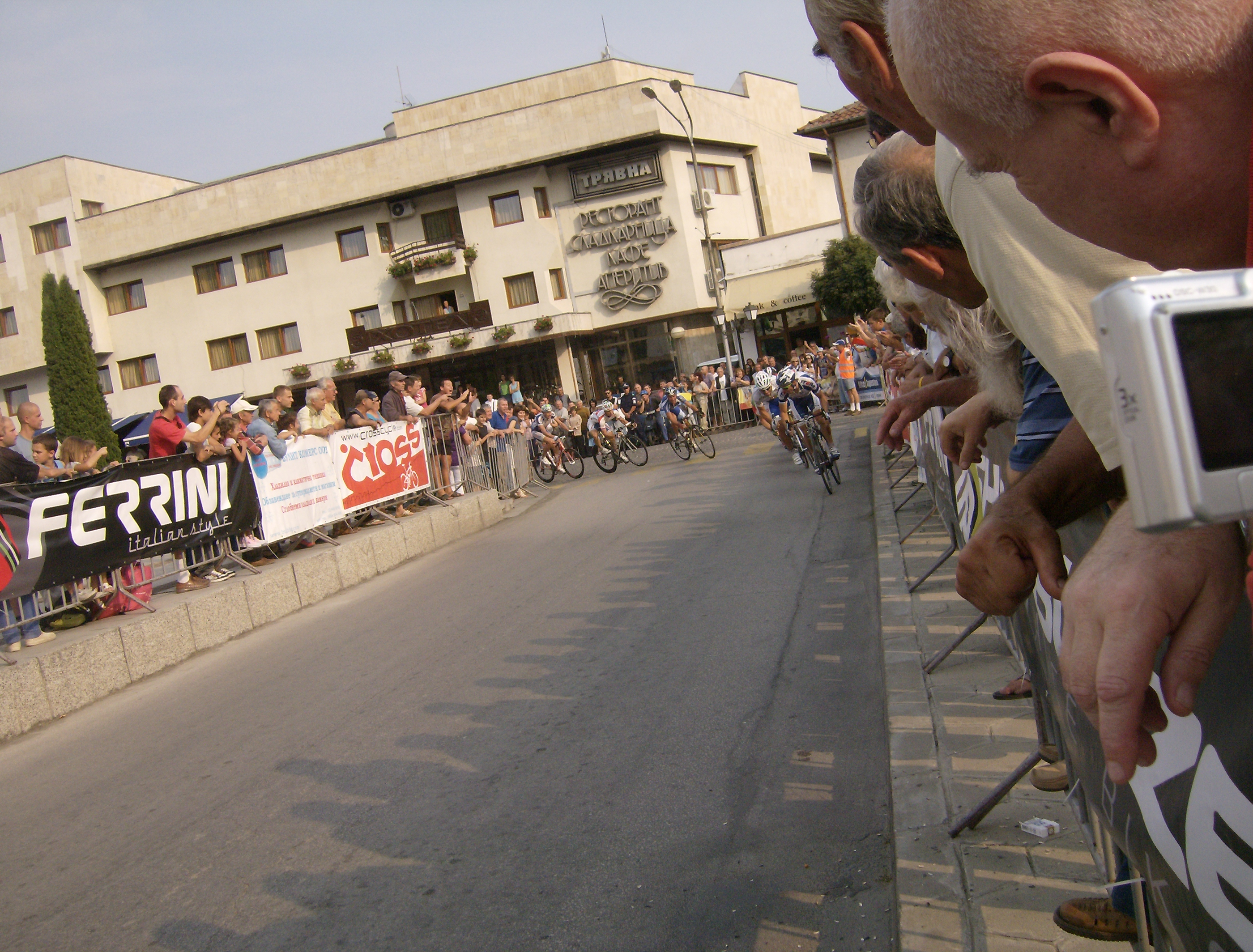 61 Tour of Bulgaria, 6-th stage, Tryavna